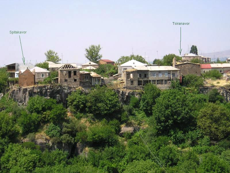 Spitakavor and Ciranavor churches in Ashtarak, a view from the st. Sargis church on the other side of the gorge.